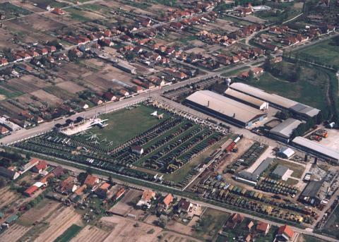 Kecel, Hungary, aerialphotography